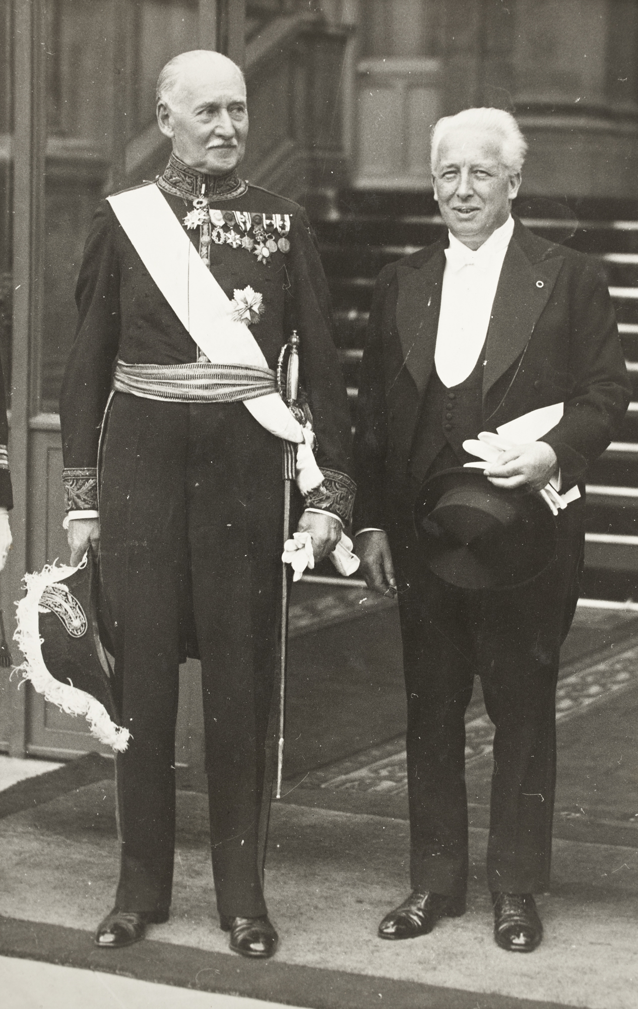 An Irish Political Figure I never heard of is the subject of today\s image! Art O'Briain was conveniently identified for us by the cataloguer who states that he is accompanied by a member of the British army wearing a uniform and medals! This should be educational? (FYI - Yesterday's lunchtime tour of the Photo Detectives Exhibition was a tremendous success and was very well attended. There will be similar tours on the last Wednesday of each month at 1 pm and all are welcome.) And, speaking of "tremendous successes", based on Trojan work from [/photos/139877639@N08/ Rory_Sherlock], [/photos/gnmcauley/ Niall McAuley]. [/photos/66151649@N02/ oaktree_brian_1976], [/photos/beachcomberaustralia/ BeachcomberAustralia] and -especially- [/photos/scorbet/ sharon.corbet], we have confirmation of date, subject and location here. Sharon suggested (with corroboration from others) that the man in the uniform is Augustin Pierre Becq de Fouquière, who was 'Chief of Protocol and Introducer of the Ambassadors to the President of France'). He is almost certainly greeting Art Ó Briain to the official residence of the President of France, the Élysée Palace. It was likely captured in the mid 1930s, when Ó Briain was 'Irish Minister Plenipotentiary to France and Belgium'.... Photographers: Various Collection: Irish Political Figures Photographic Collection Date: Catalogue range c.1920-1949. Likely c.1935-1938 NLI Ref: NPA POLF214 You can also view this image, and many thousands of others, on the NLI’s catalogue at